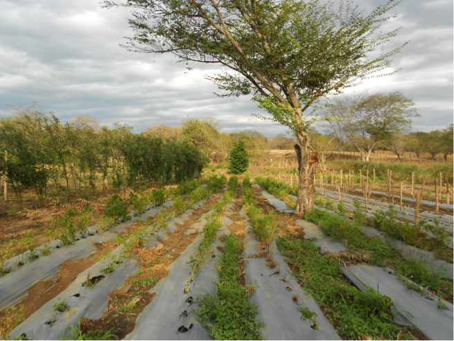 Photo of a cultivated field at the sustainable farm operated by the Norwalk/Nagarote Sister City Project, in Nagarote, Nicaragua.